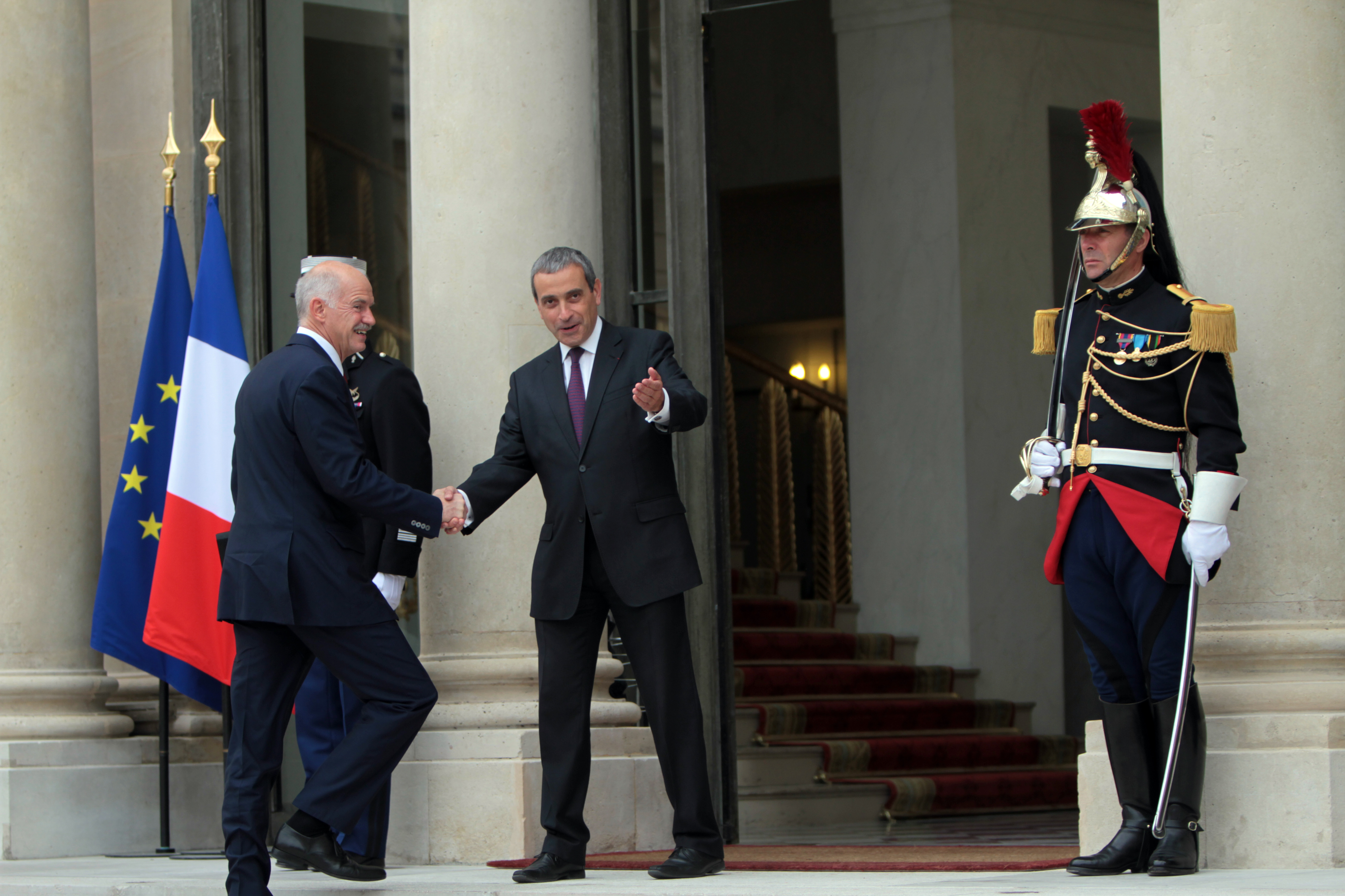 International Conference in Support of the New Libya, September 1, 2011.